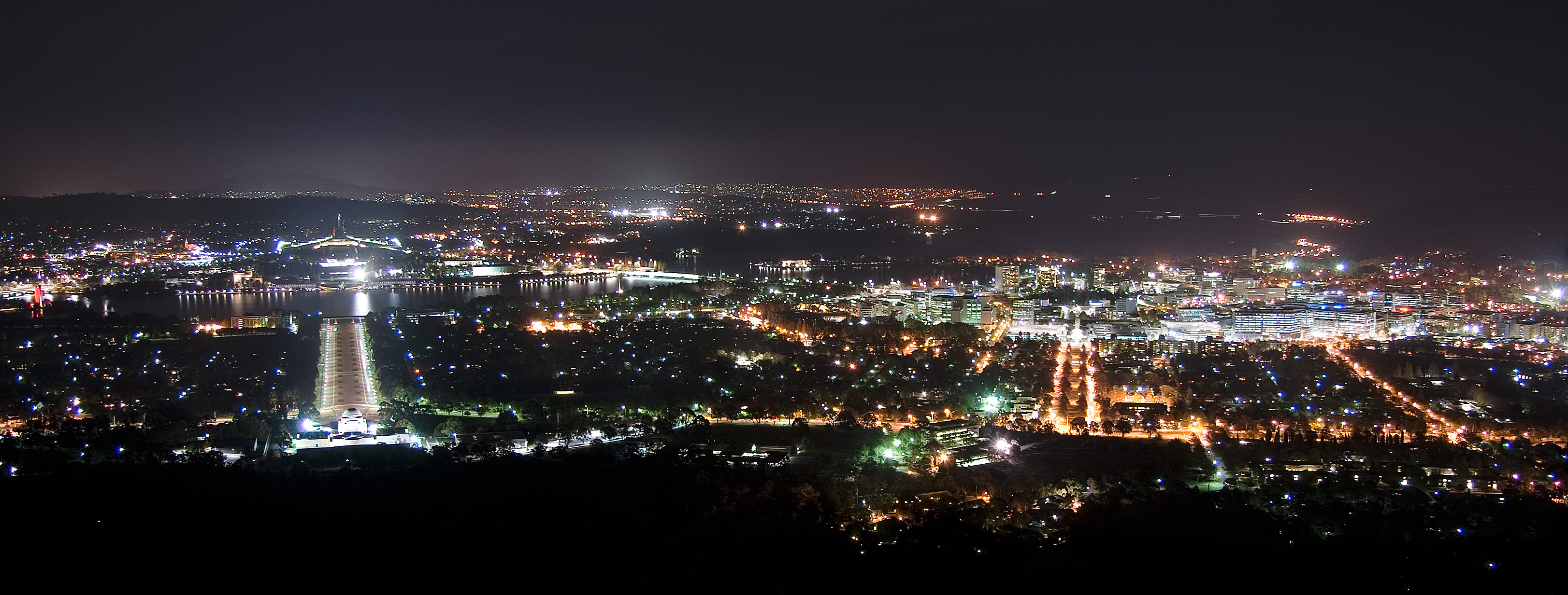 Canberra in the evening as seen from Mt Ainslie. Anzac Parade and Parliament House are on the left side; Civic is on the right side.